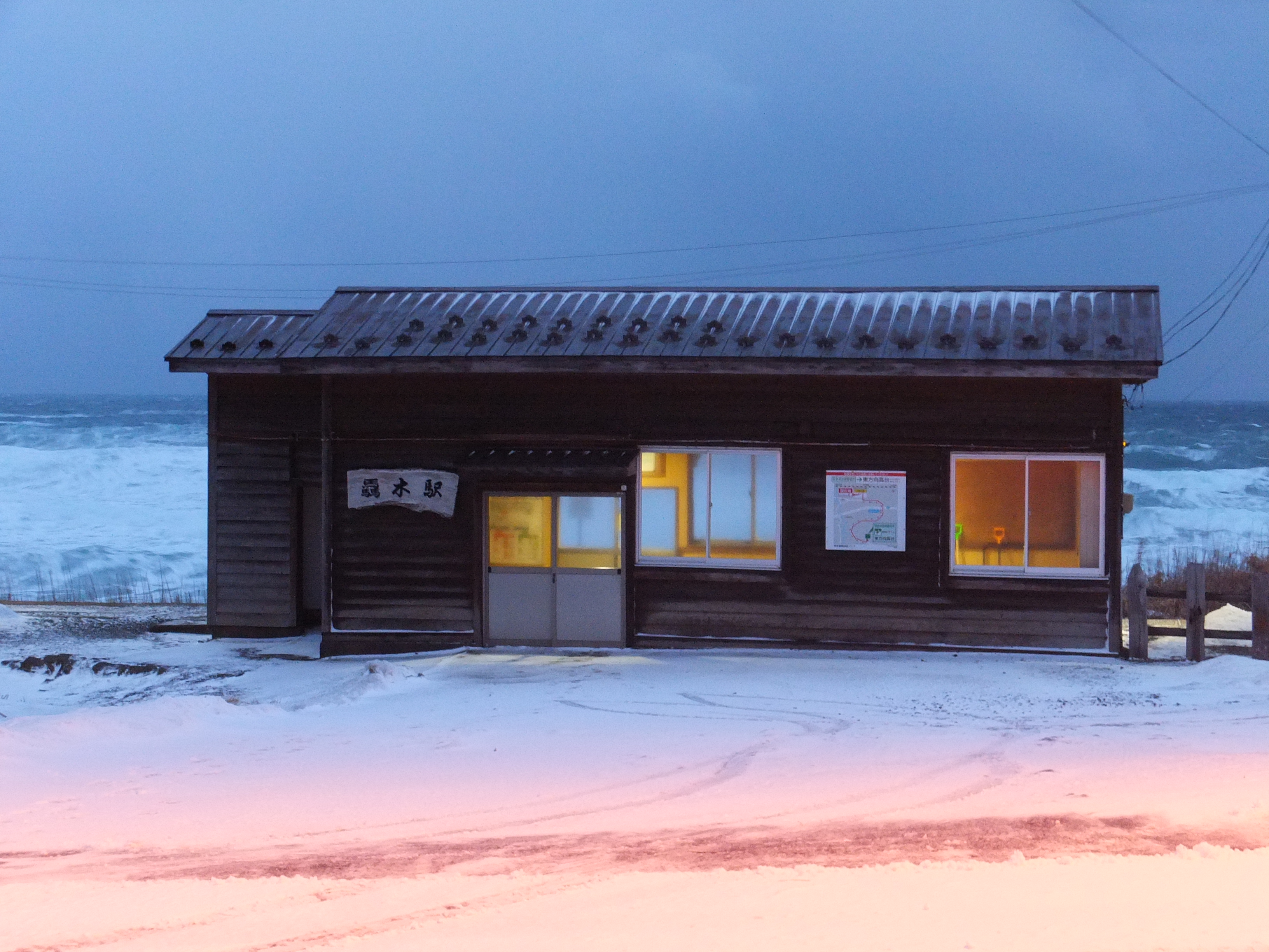 Todoroki Station on the Gono Line, in Fukaura town, Aomori, Japan